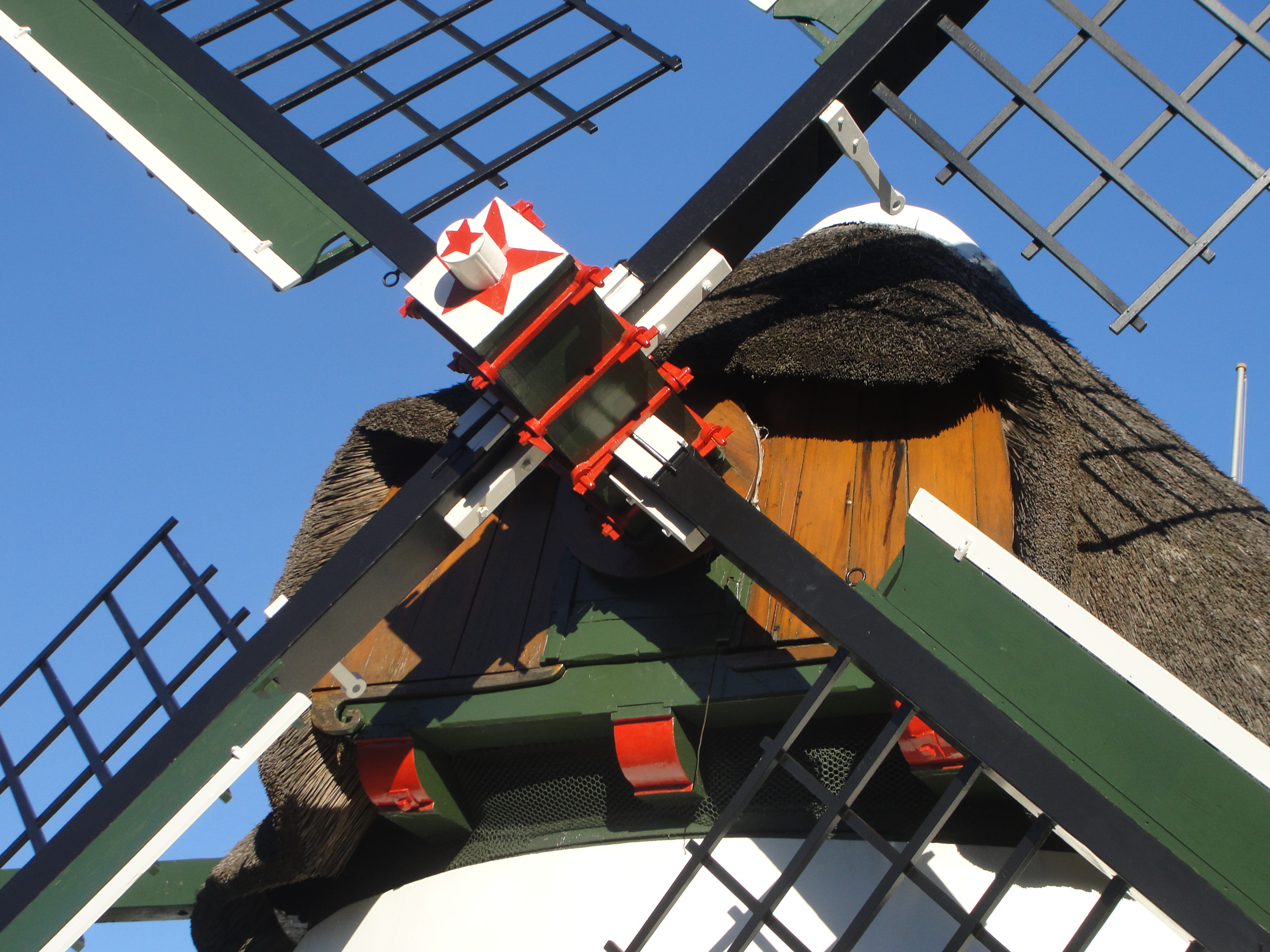 Detail of Mostert's Mill This media shows a South African Protected Site with SAHRA file reference 9/2/111/0064/004.